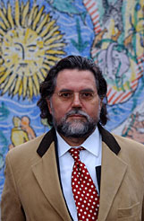 Portrait of artist Stefan Szczesny, Szczesny Factory